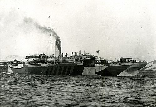 HMS Bayano with dazzle camouflage c1914-15